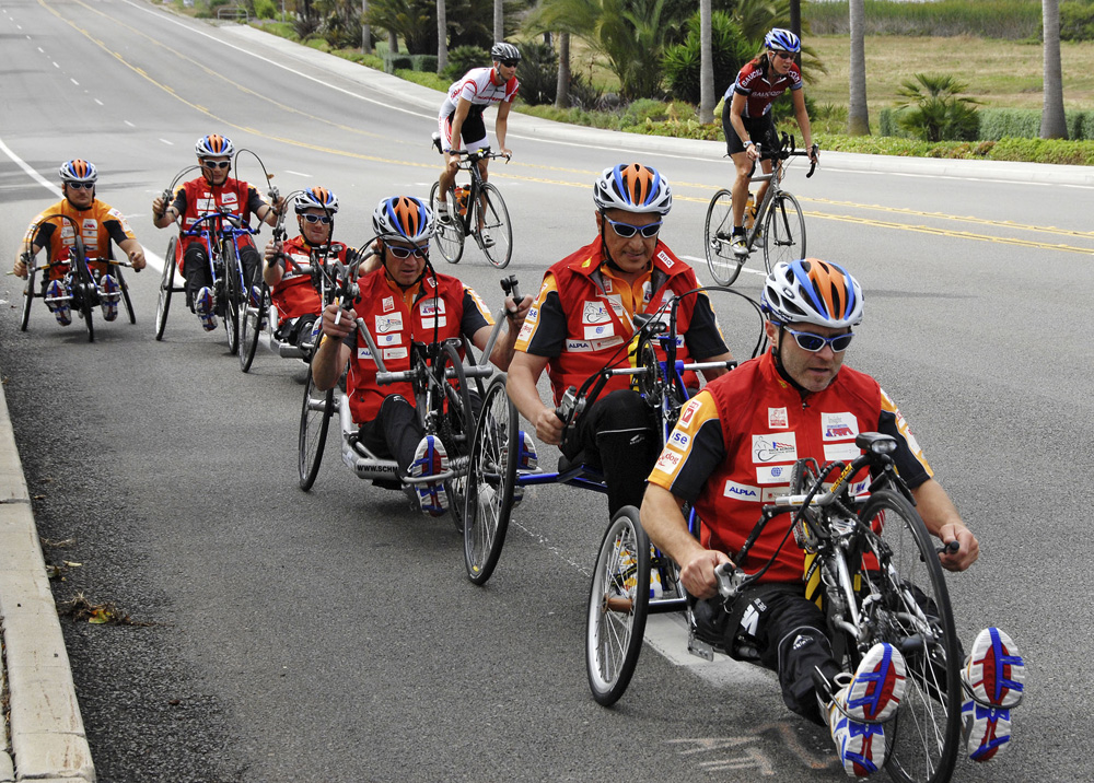 RC Vorarlberg Race Across America 2006